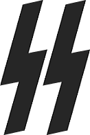 Sig runes, as used by the Nazi SS.